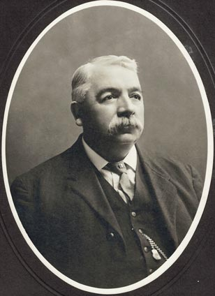 A formal portrait of the English-born contractor and builder John C. Robertson of Portland, Oregon.